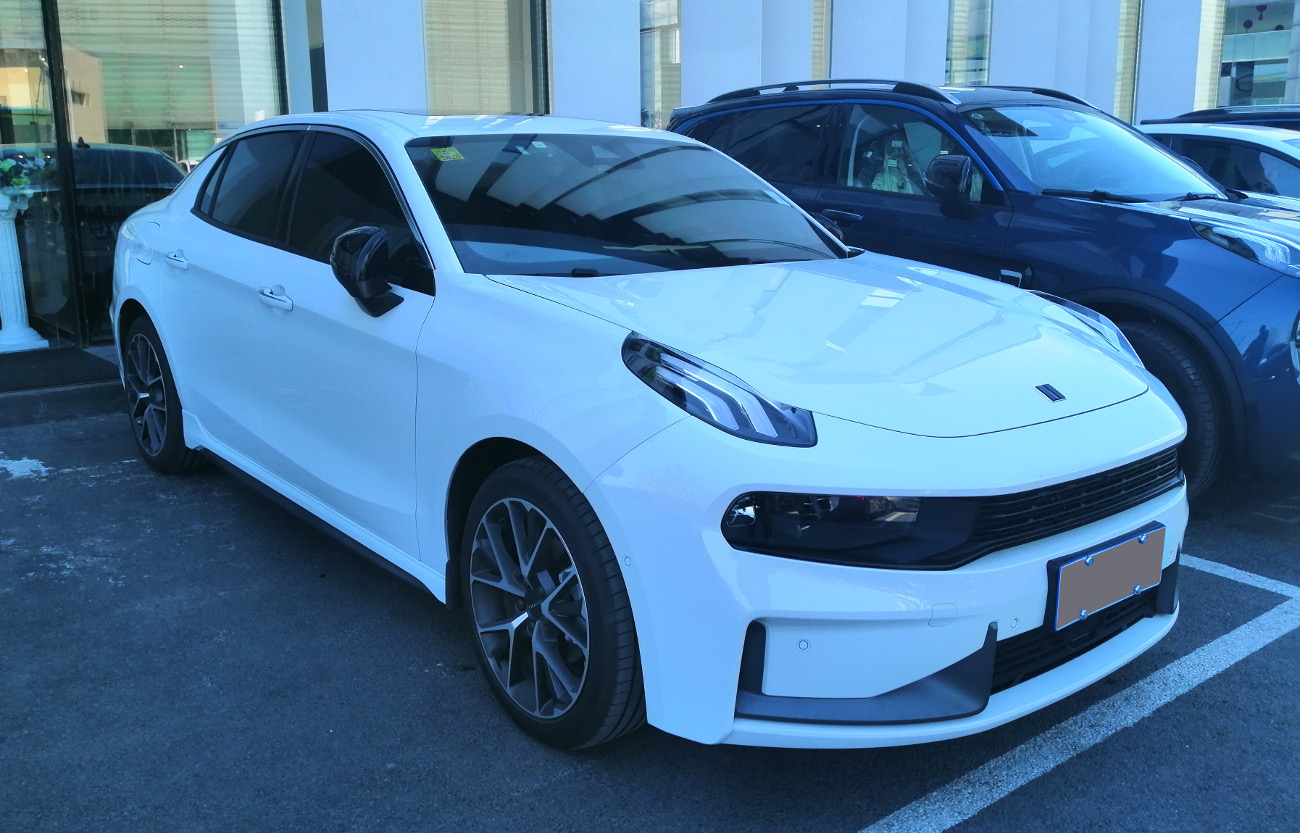 Lynk & Co 03 photographed in Beijing, China.